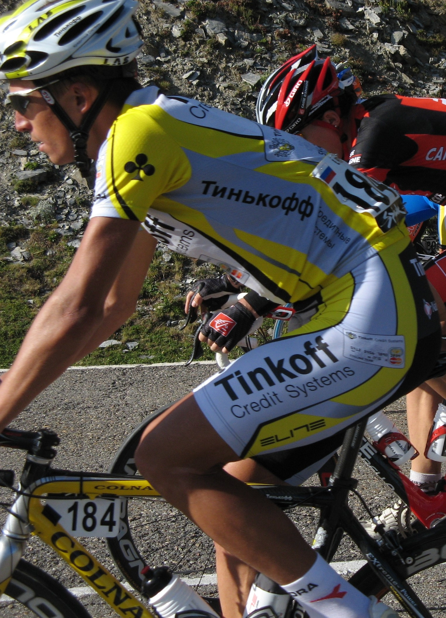 Evgeni Petrov, 2008 Vuelta a España, 8th stage, Port de la Bonaigua, Spain.